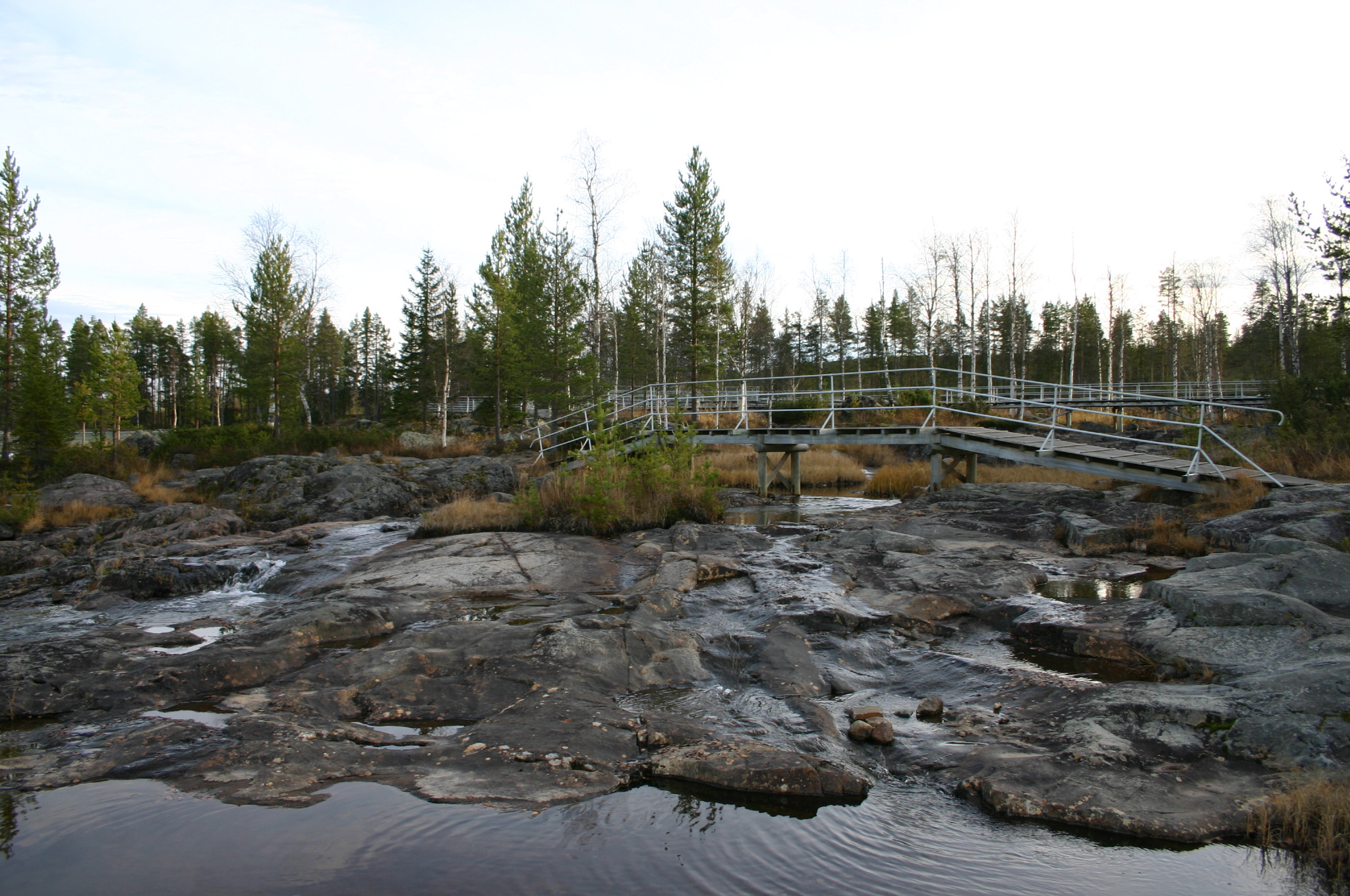 Description: Storforsen rapids near Vidsel, Älvsbyn kommun, Norrbotten, Sweden. source: created on 17.10.2005 by Stephan Herz with Canon EOS 300D